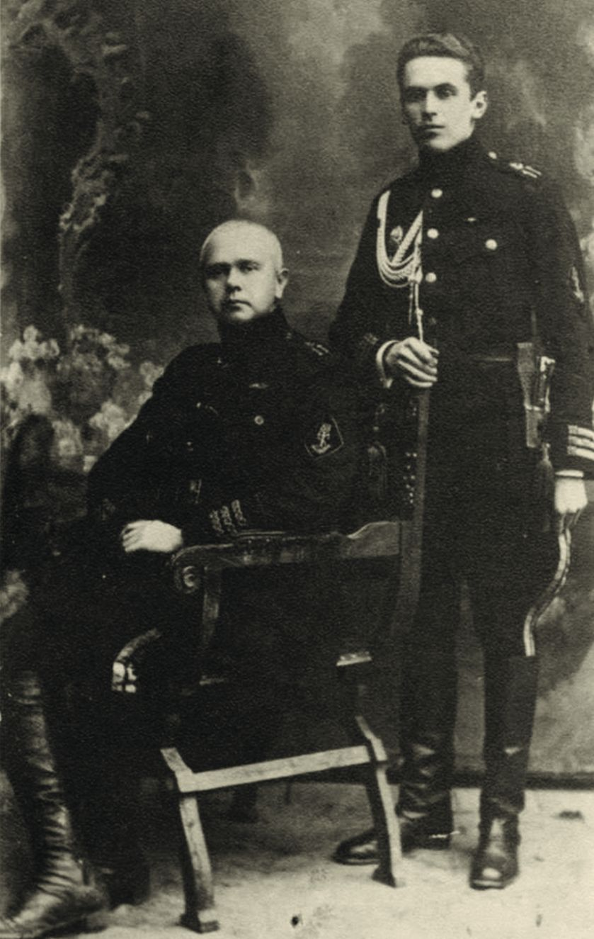 Photo of sea minister UPR of M.I.Bilinskogo and S.A.Shramchenko